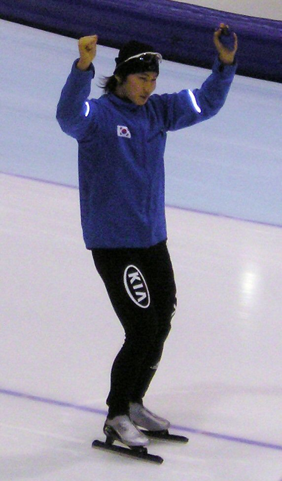 Lee Kang-seok (KOR) at a World Cup in Thialf (Heerenveen, The Netherlands)